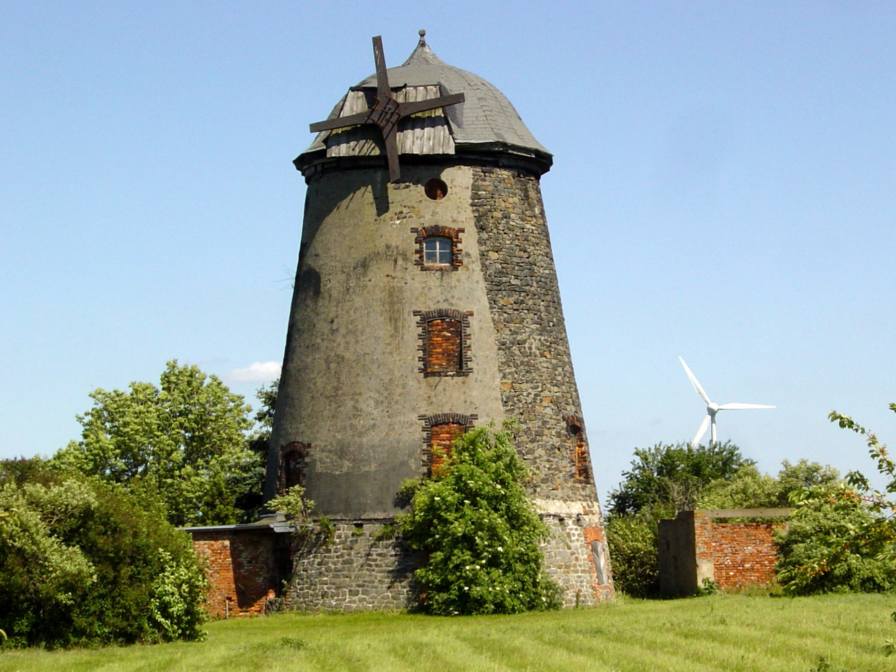 Tower mill in Groß Ammensleben, Germany